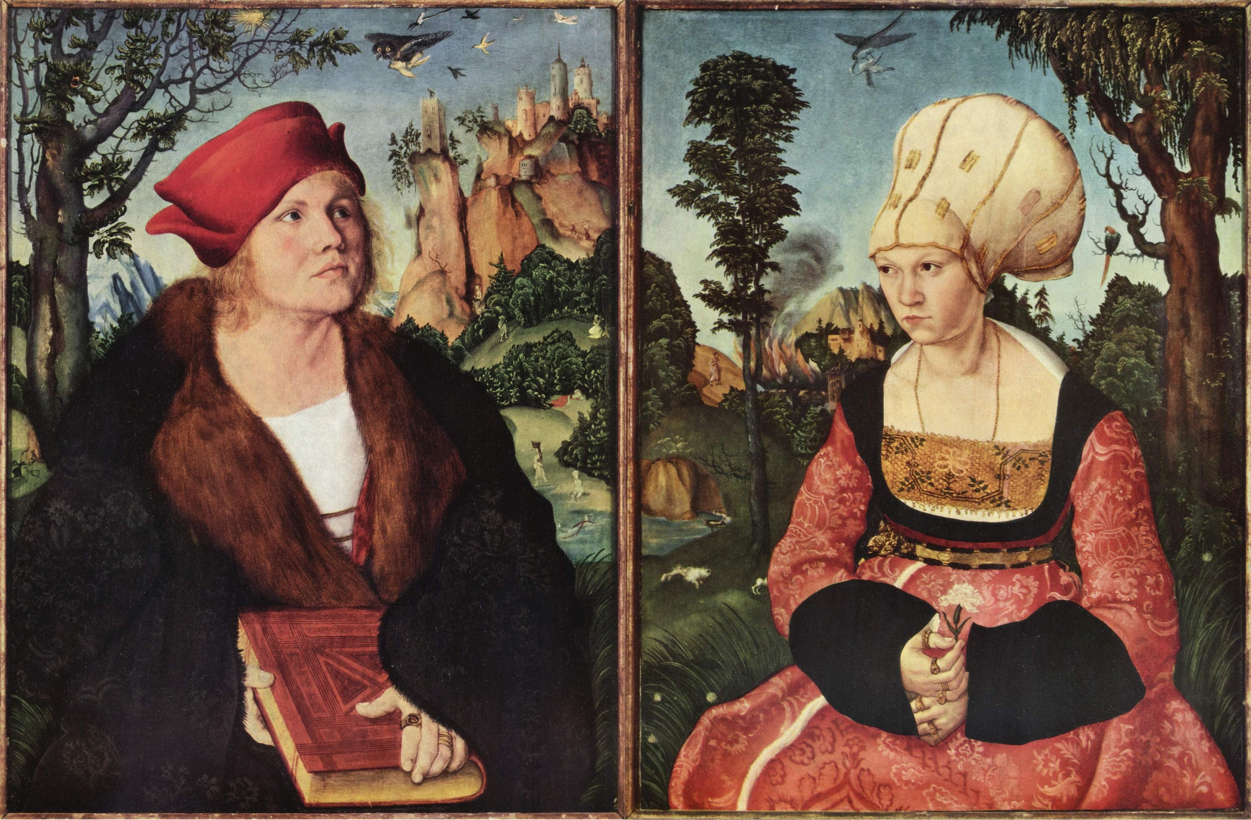 The Wedding Portrait of Dr. Johannes Cuspinian and Anna Cuspinian-Putsch